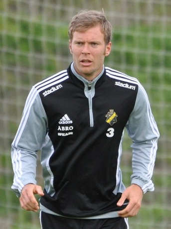 Per Karlsson